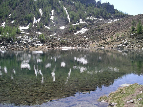 Salei Lake, near Vergeletto, Ticino, Switzerland